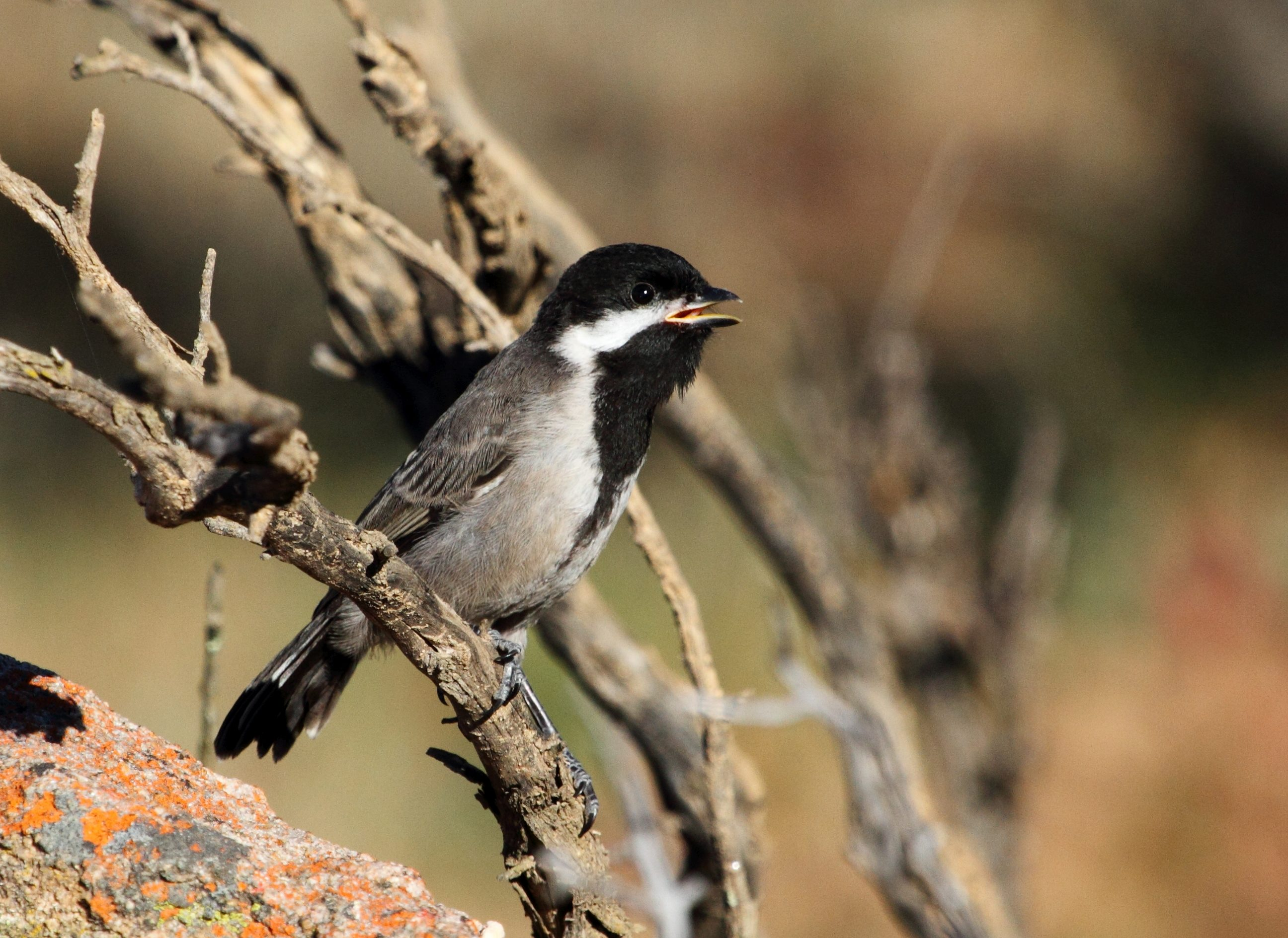 A juvenile Grey Tit at Namaqua National Park, Northern Cape, South Africa.